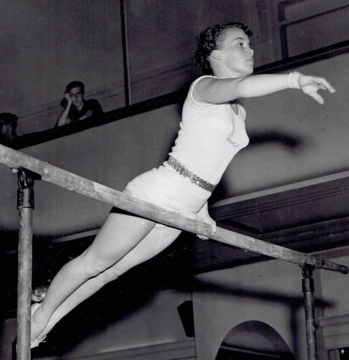 1954 Vintage Photo gymnast Ernestine Russell on parallel bars AAU Championships, New York